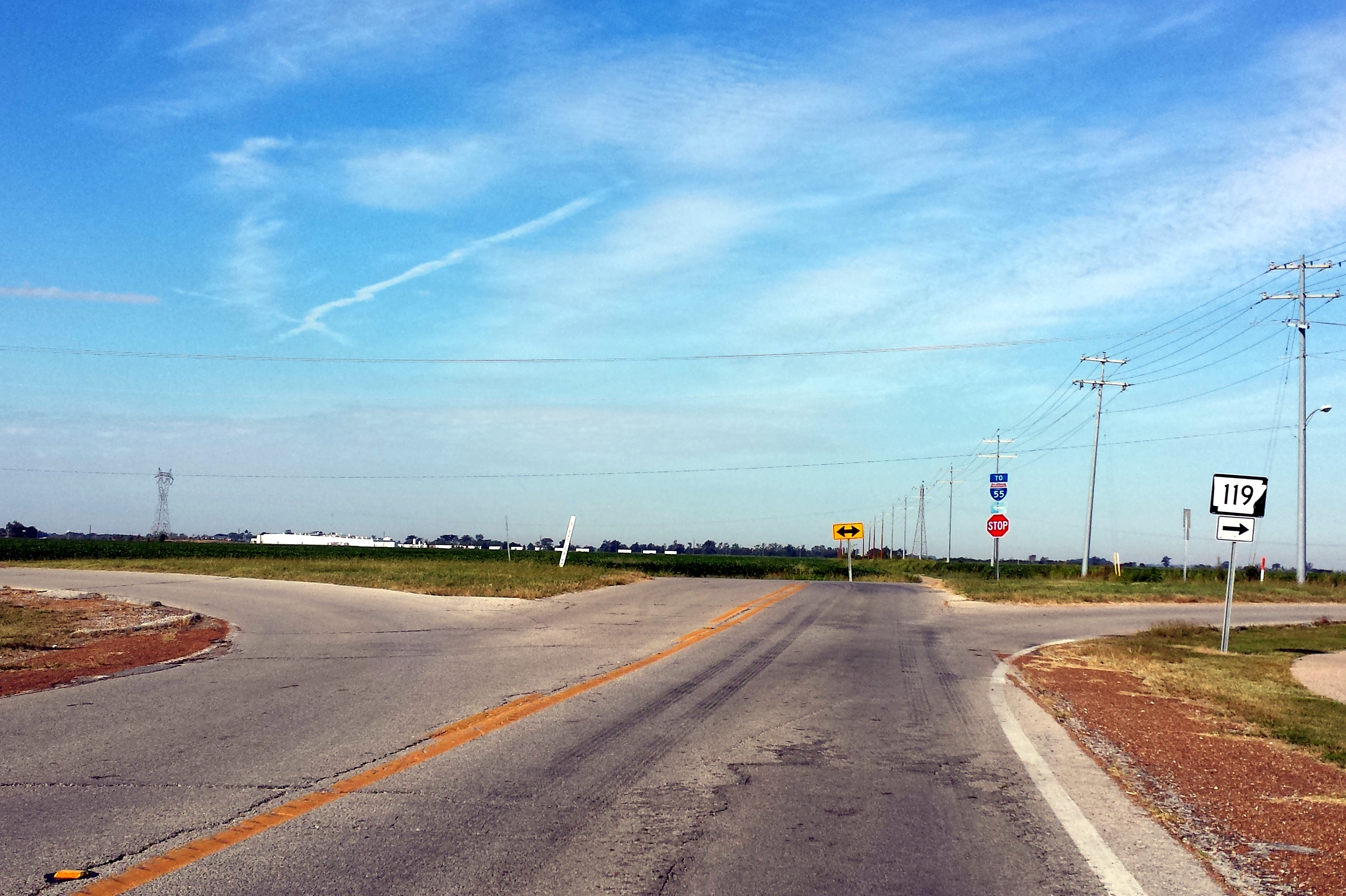 Highway 119 turns at Highway 119Y (at left) in Osceola, AR. Sign denotes Interstate 55 is to the left via Highway 119Y and Highway 140